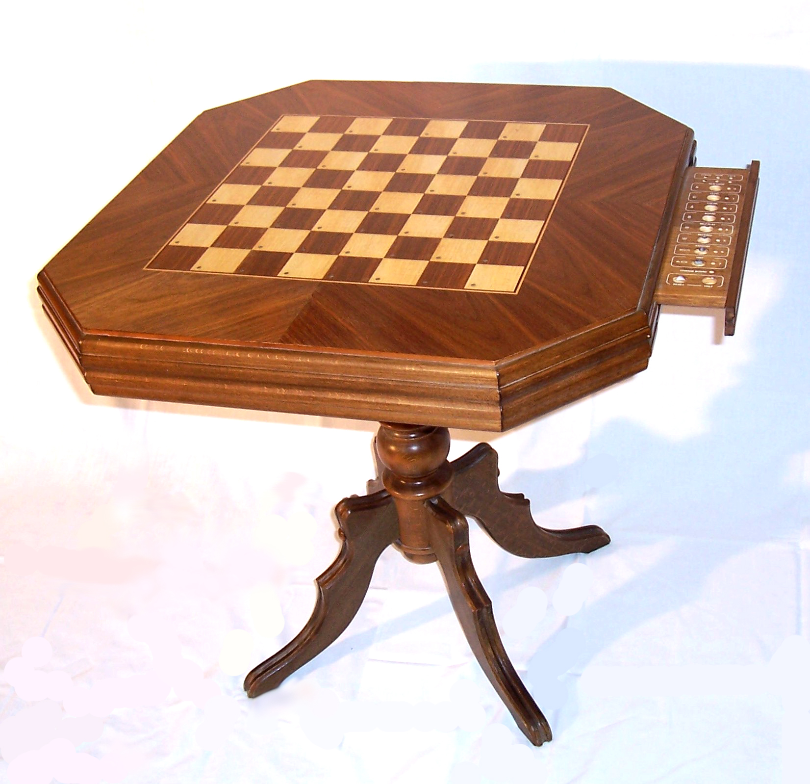 East German chess computer table CMT